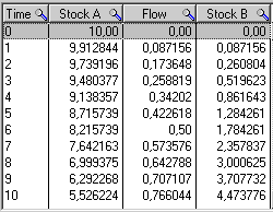 Values of the Dynamic Stock and flow diagram, created by contributor, with software TRUE (Temporal Reasoning Universal Elaboration) True-World see also File:SFD ANI.gif for animation